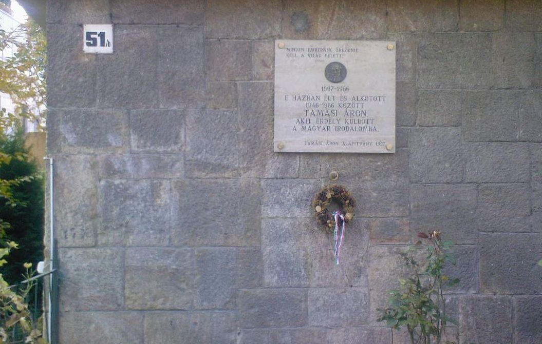 Commemorative plaque of Áron Tamási, Budapest District XII, Alkotás Street No 51/B